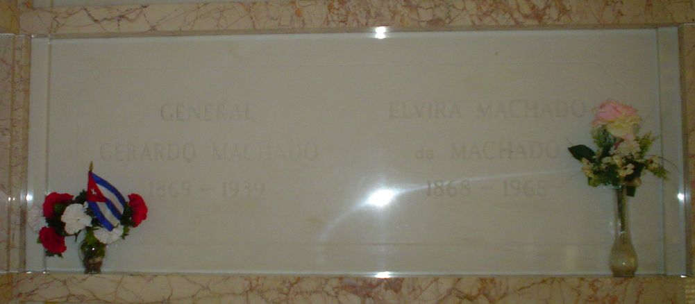 I took Picture on 9-27-2007